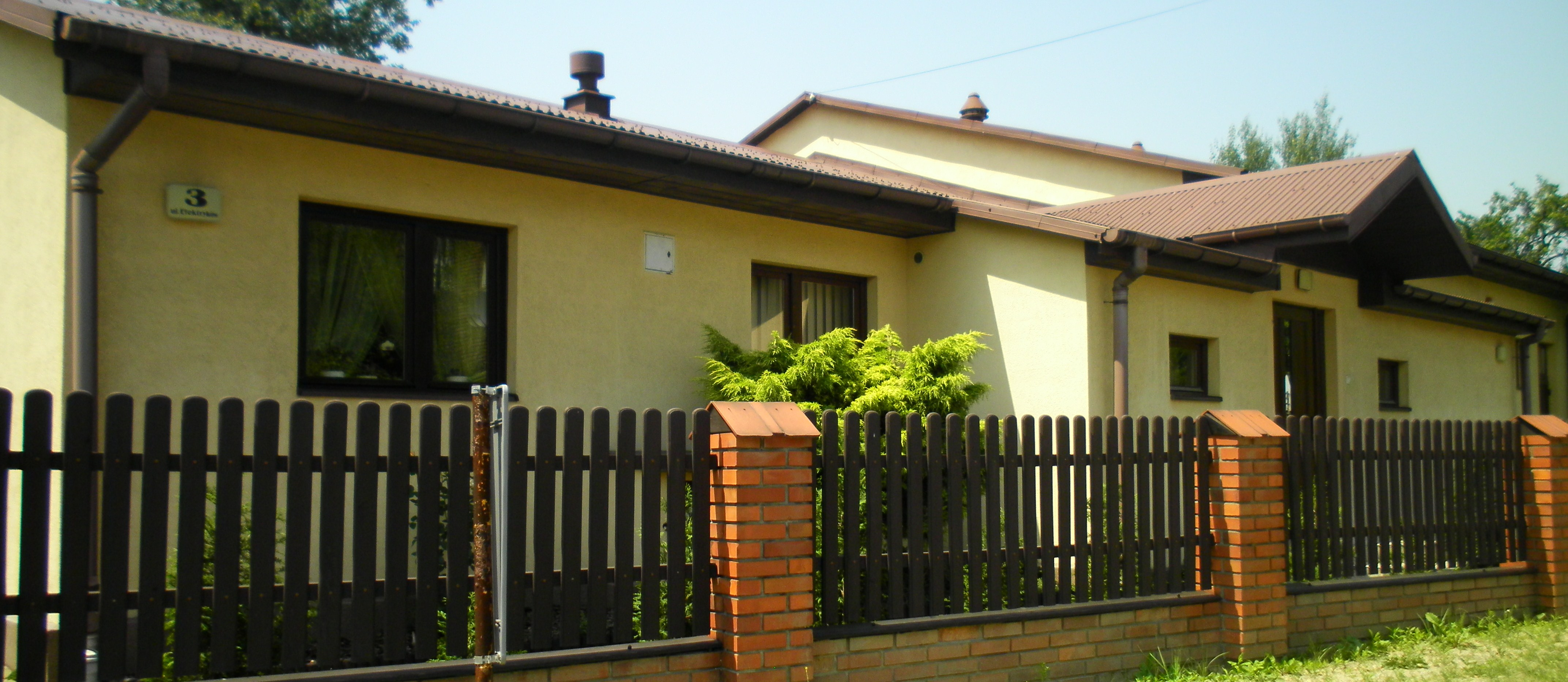 Kingdom Hall Jaworzno-Dąbrowa Narodowa